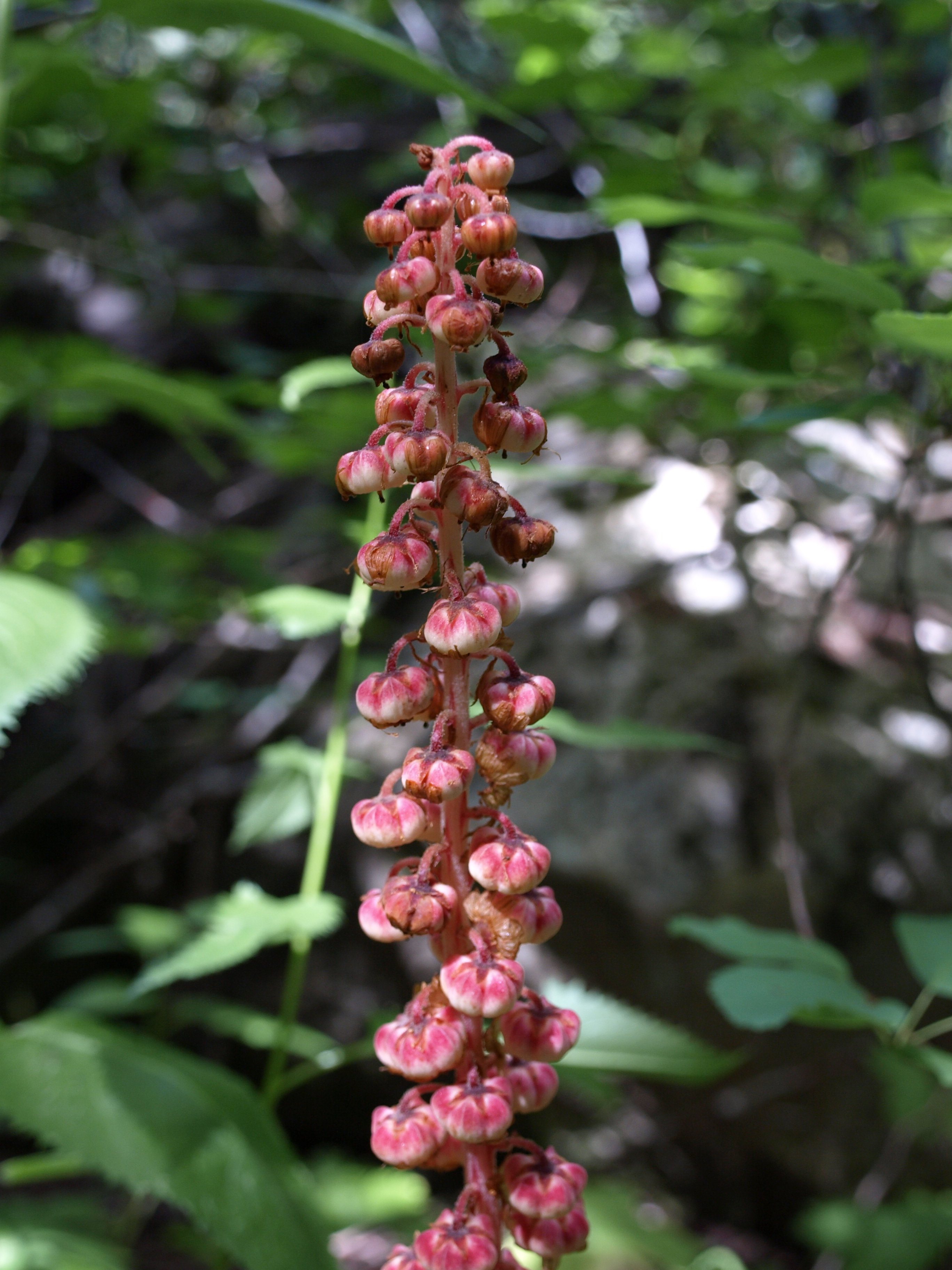 Pterospora andromedea — Woodland Pinedrops. In the Clearwater National Forest, Idaho, U.S.